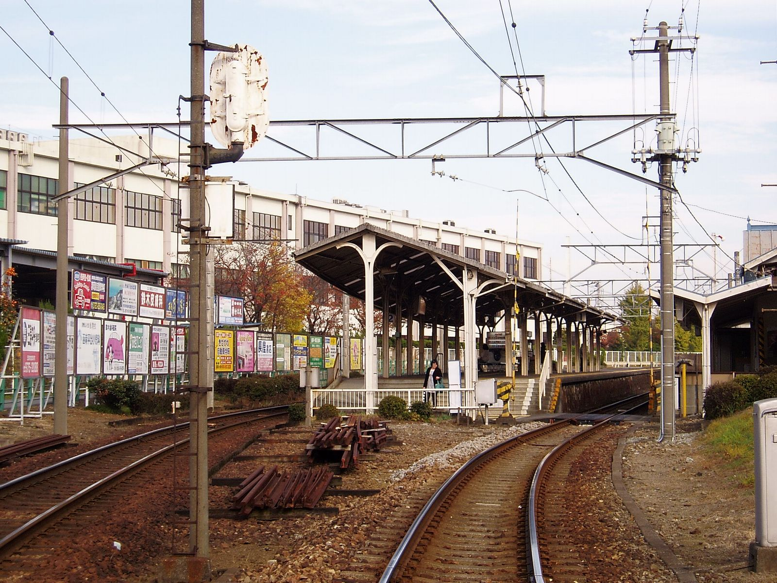 Isuhakone Railway Company, Ohito Sta. 2007.11.26 Photo by Cassiopeia_sweet.